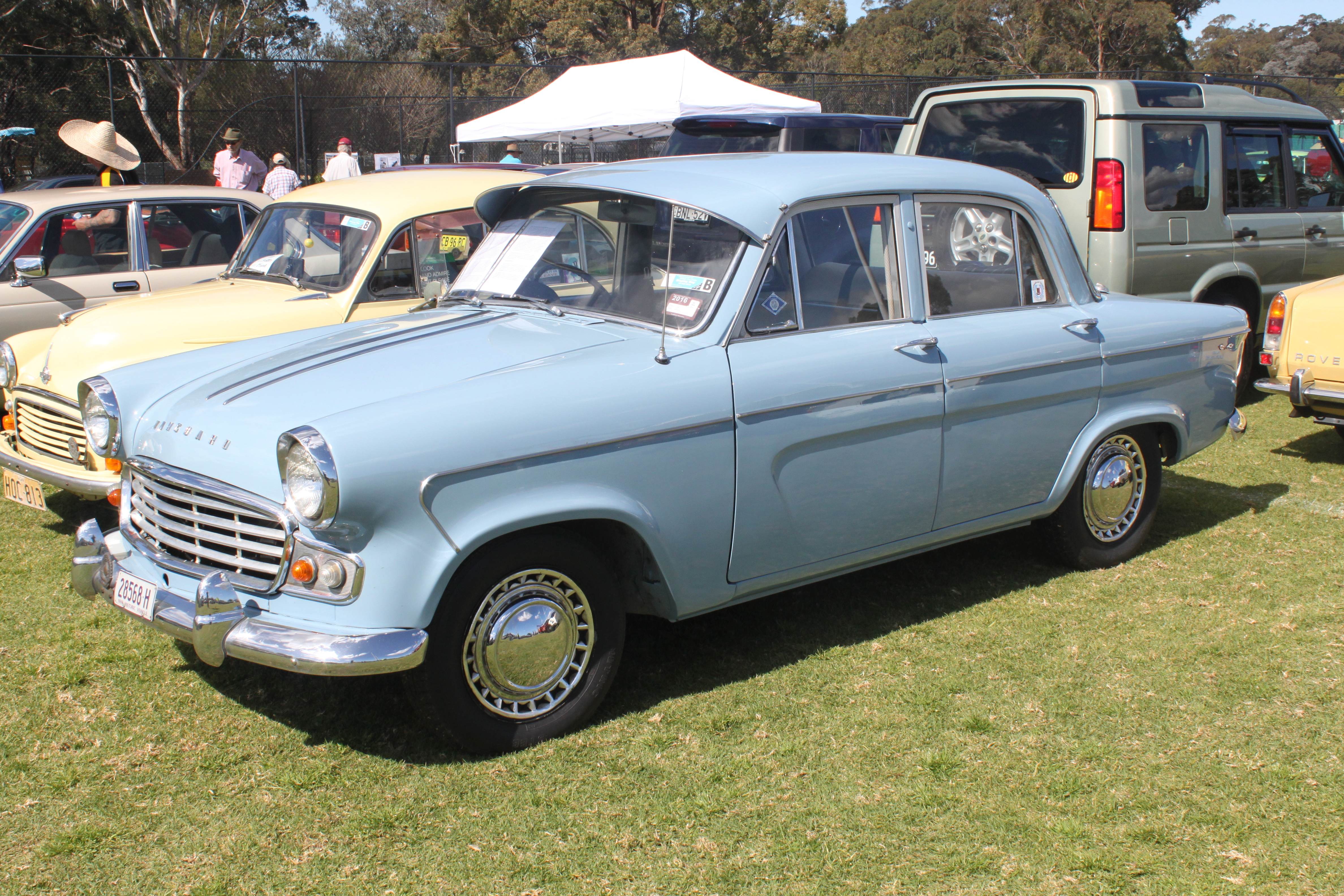 All British Day, Kings School, North Parramatta, NSW August 2015